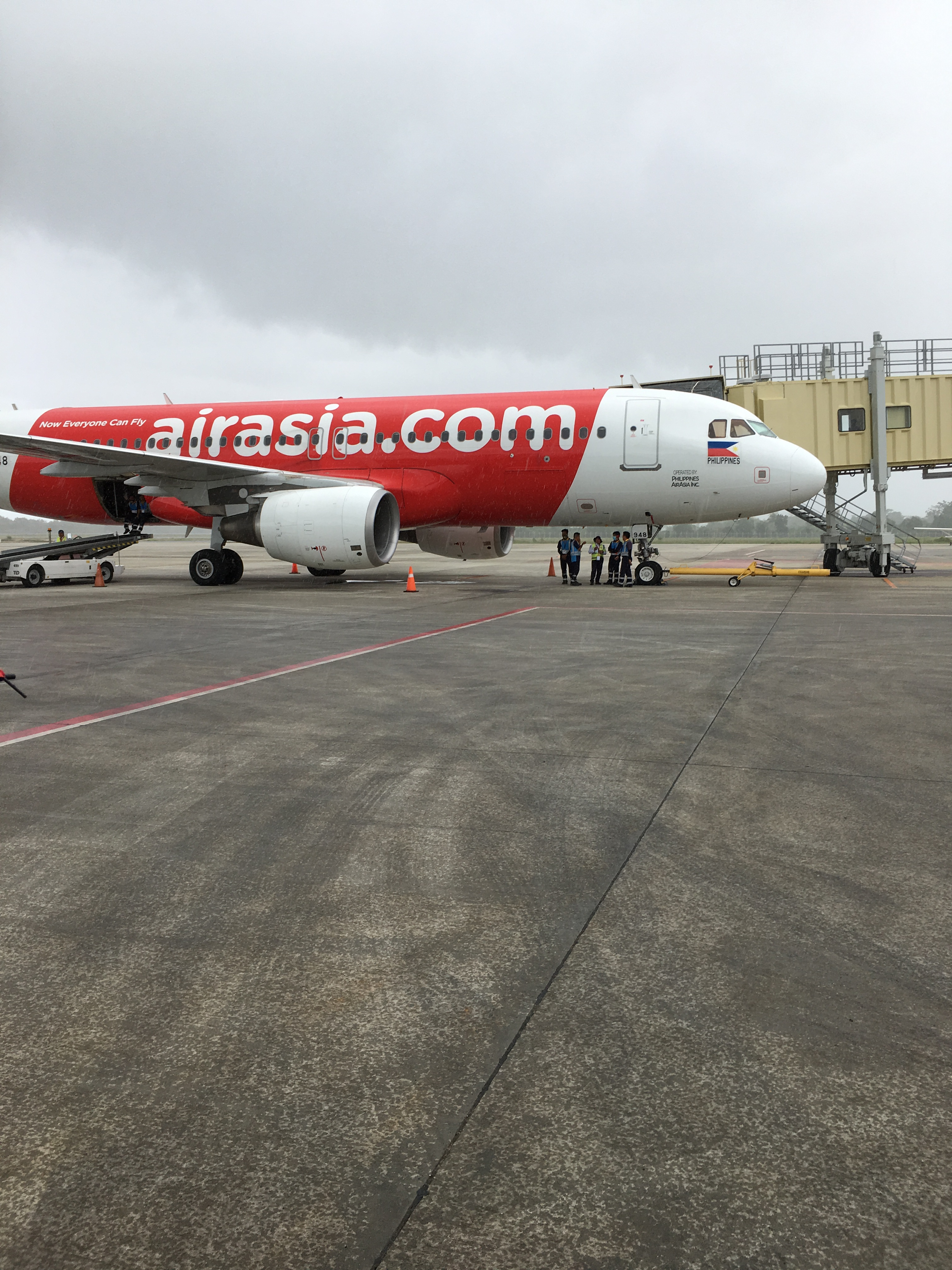 An AirAsia Philippines Airbus A320 at the ramp